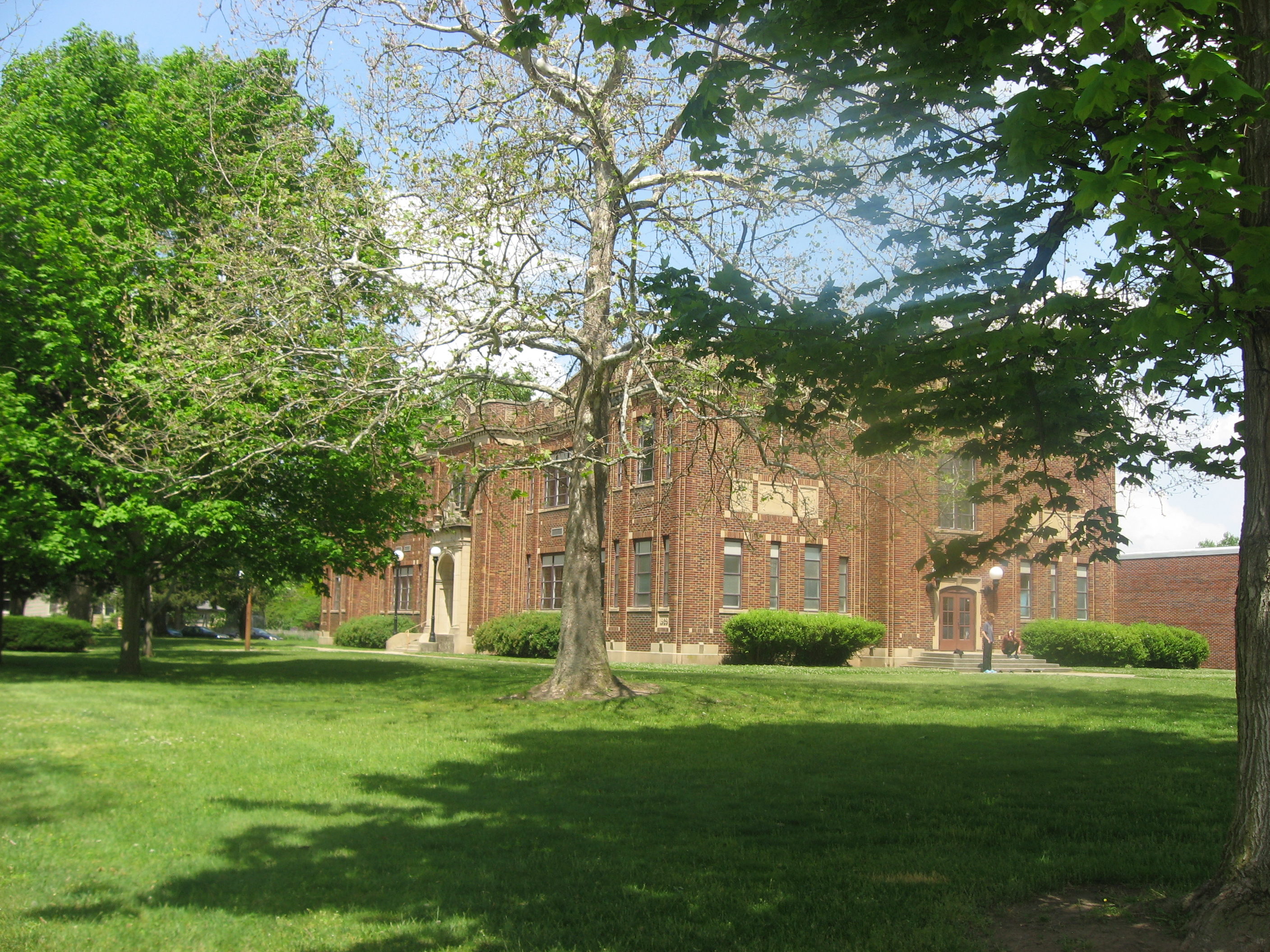 Front and southern side of the Thomas R. Marshall School, located at 603 Bond Street in North Manchester, Indiana, United States. Built in 1929, it is listed on the National Register of Historic Places.